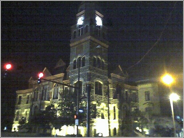 Original image taken by ArkansasTraveler. Pulaski County Courthouse (original 1887 portion), at intersection of Second and Spring Streets in downtown Little Rock, Arkansas.